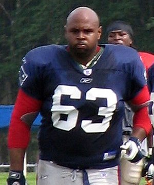 NFL player Rashad Moore at the New England Patriots 2007 Training Camp